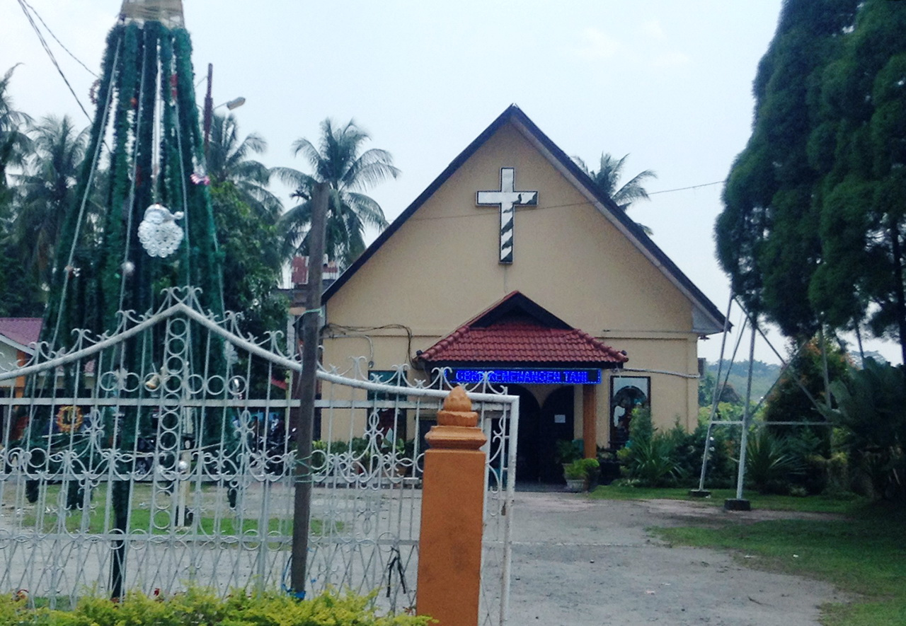 GBKP Rg. Kemenangan Tani, Klasis Medan Namo Rambe, Church in Kemenangan Tani, Medan Tuntungan, Medan